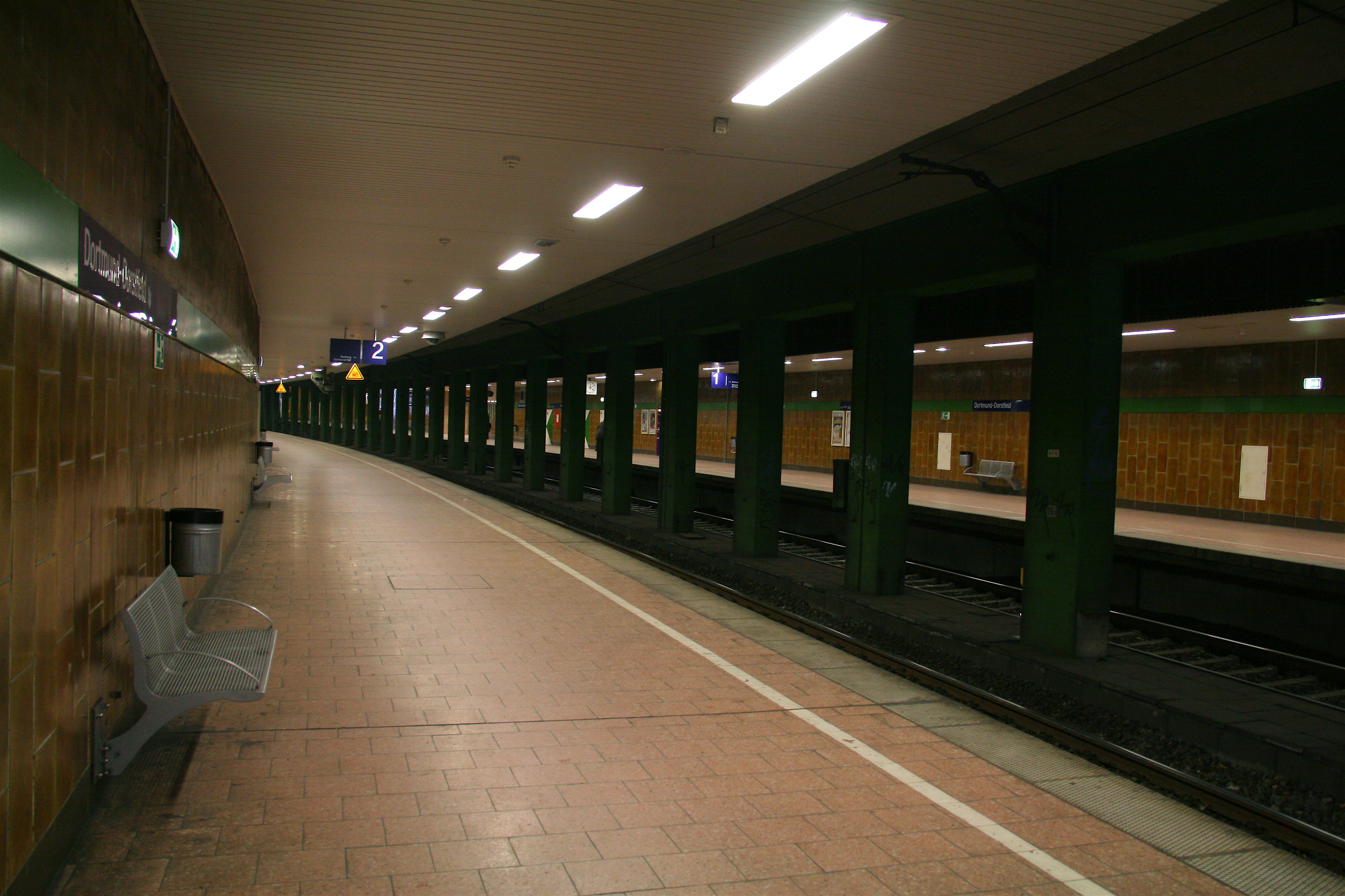 Underground S-Bahn (commuter railway) platform of the S1 Line in Dortmund, station Dorstfeld.